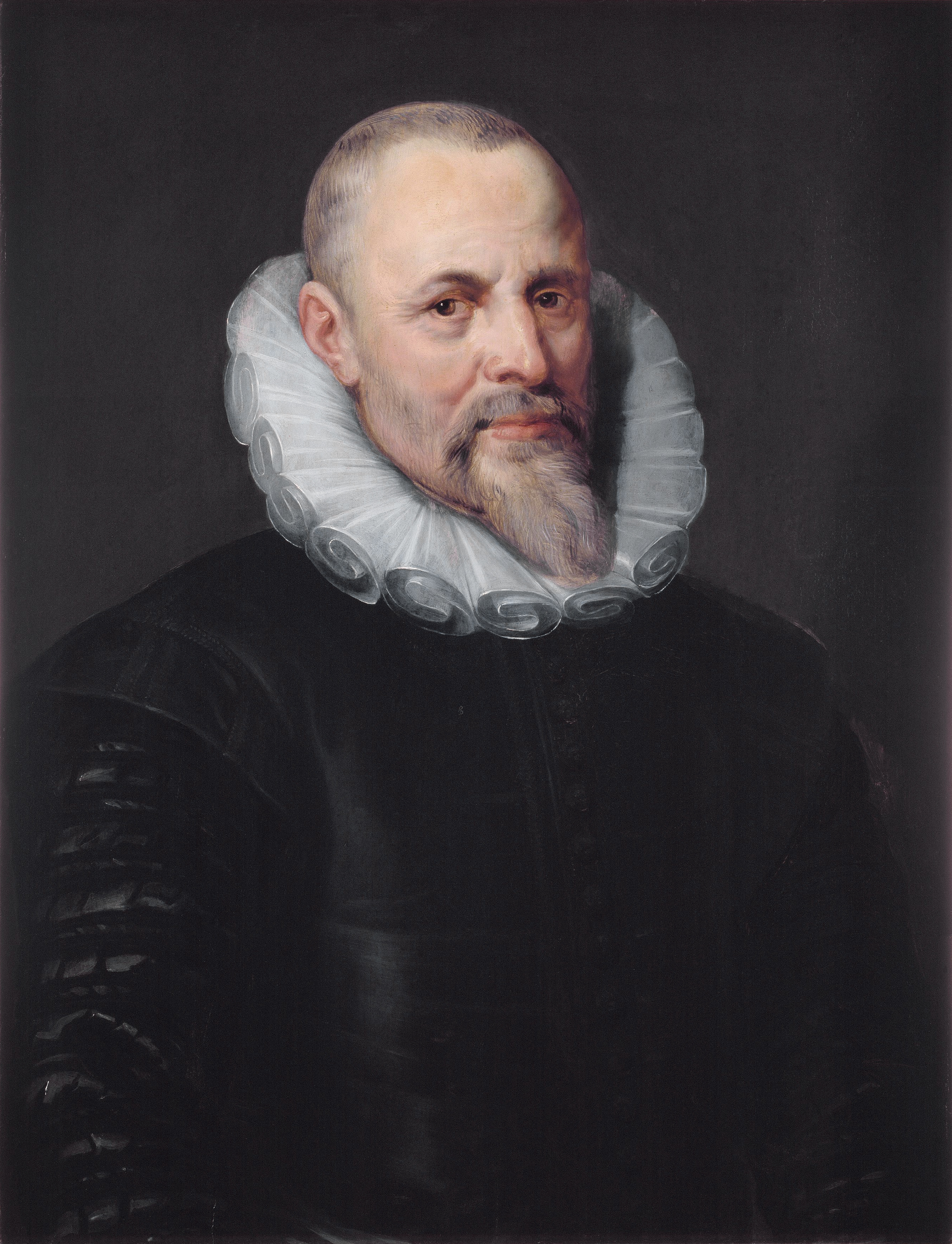 Jan (I) Moretus 1612-1616 oil on wood